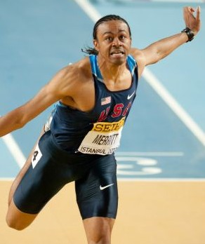 Aries Merritt during 2012 IAAF World Indoor Championships in Istanbul